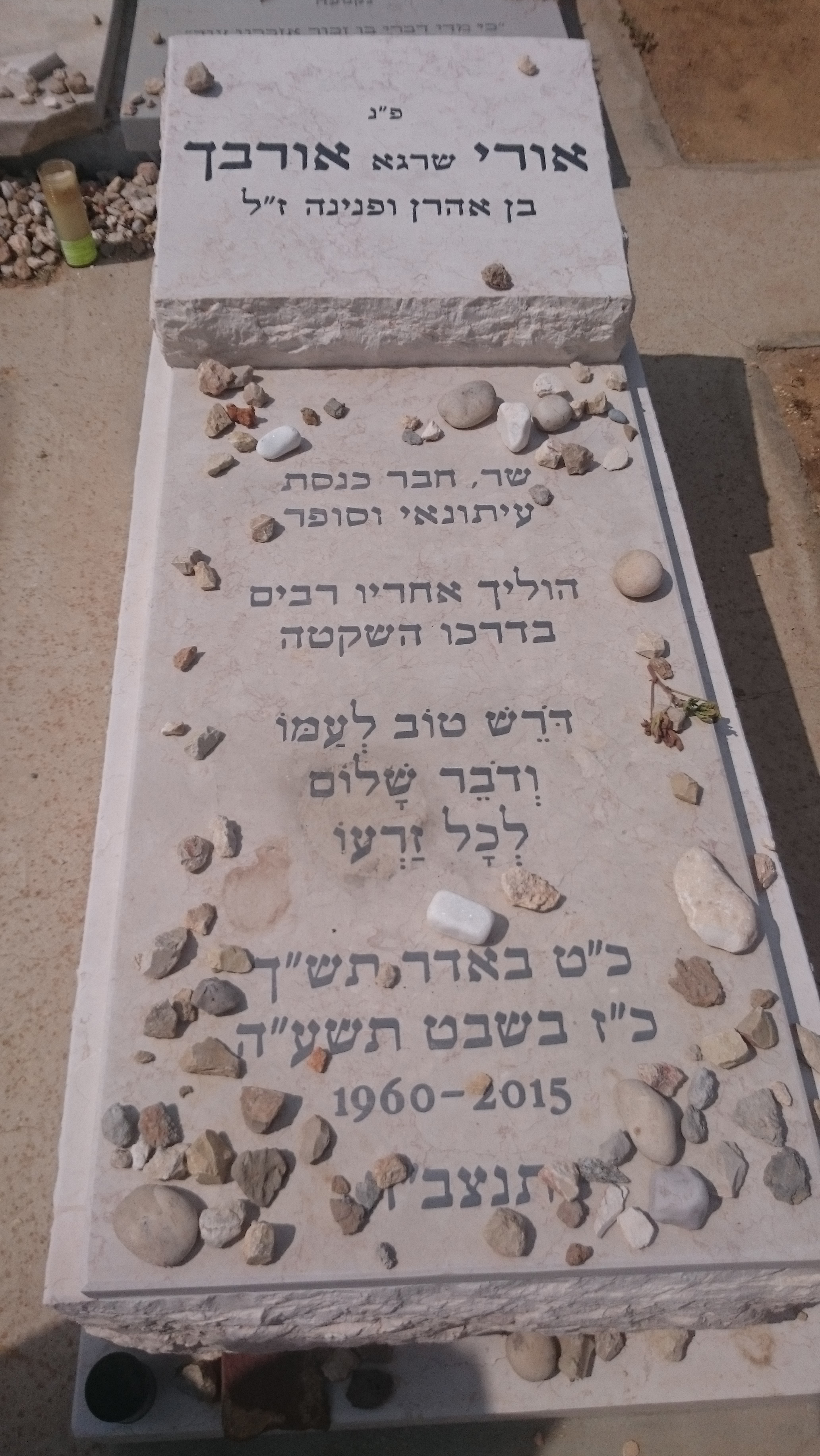 Tomb of Uri Orbach